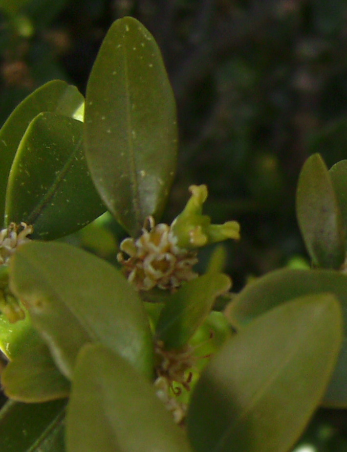 Buxus sempervirens showing inmature (green) trilocule capsule, Castelltallat, Catalonia